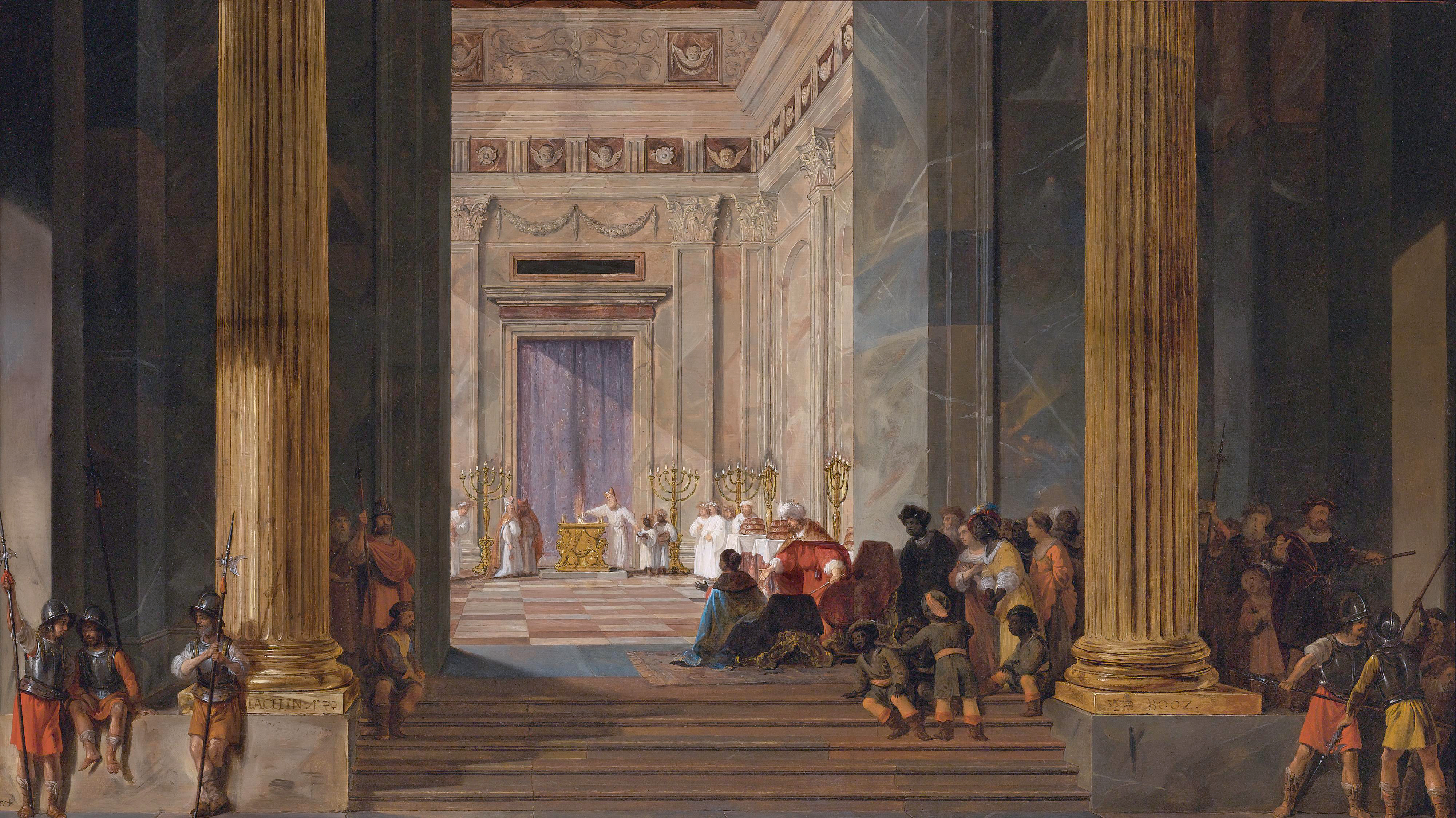 The Queen of Sheba before the temple of Solomon in Jerusalem oil on panel 58.4 x 102.9 cm inscribed on the column l.: IACHIN inscribed on the column r.: BOOZ signed b.l.: 57 6/5 and indistinctly ...y 1657